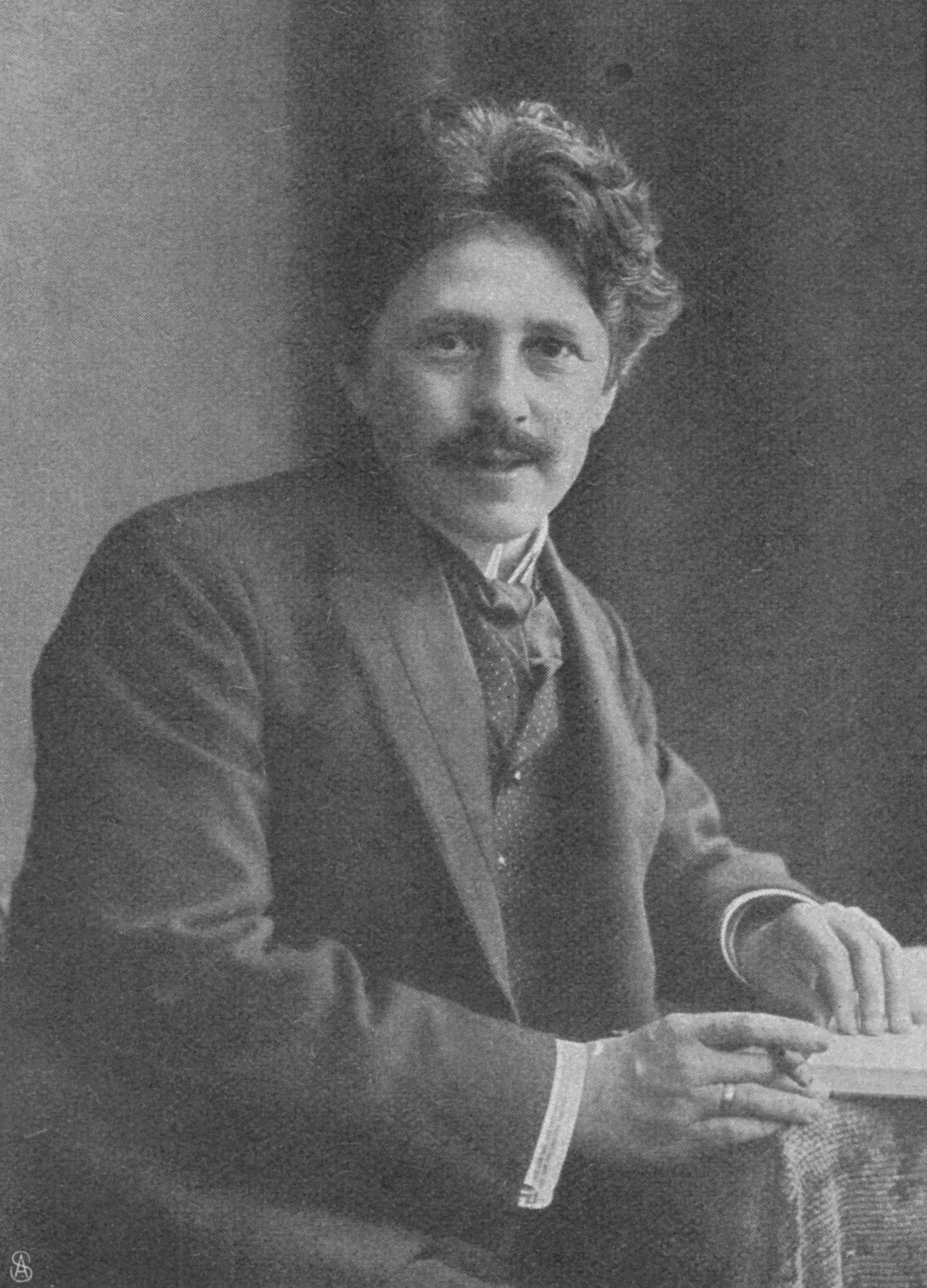 Max Geißler, German writer